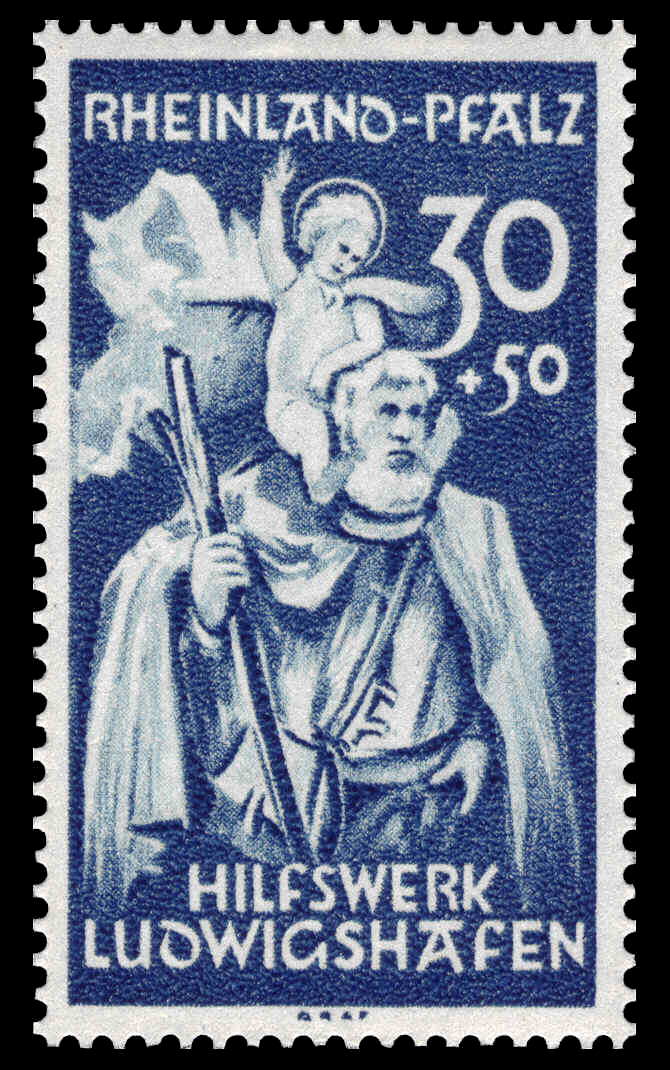 French occupied zone, Rhineland-Palatinate, stamp with additional fee for the relief organization Ludwigshafen Ausgabepreis: 30+50 Pfennig First Day of Issue / Erstausgabetag: 18. Oktober 1948 Michel-Katalog-Nr: 31 (Französische Besetzungszone, Rheinland-Pfalz)